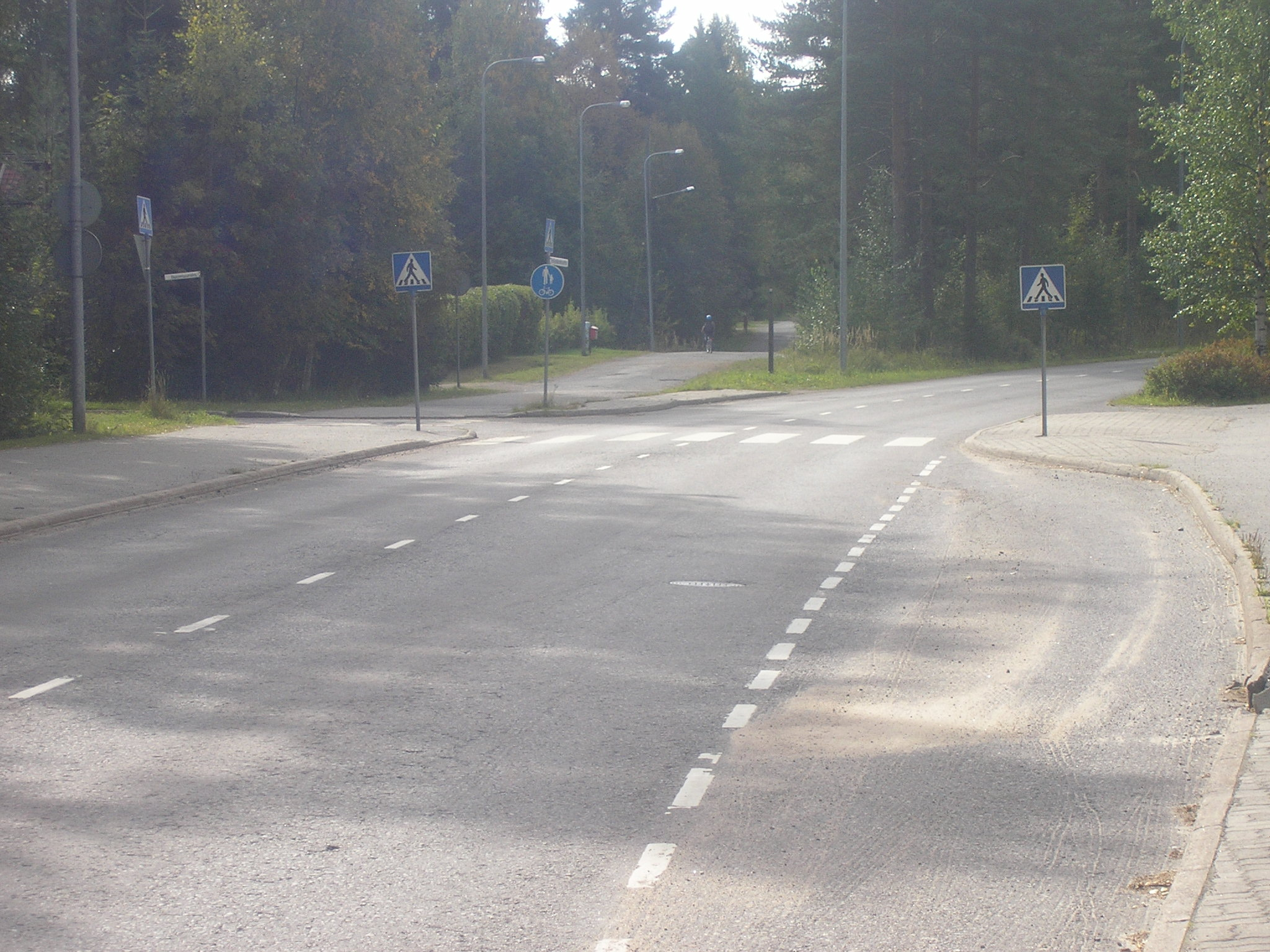 Connecting road 6113 in Keljonkangas, Jyväskylä, Finland